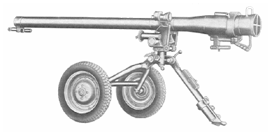 Image extracted from U.S. Army OPFOR Worldwide Equipment Guide, September 2001, page 62.